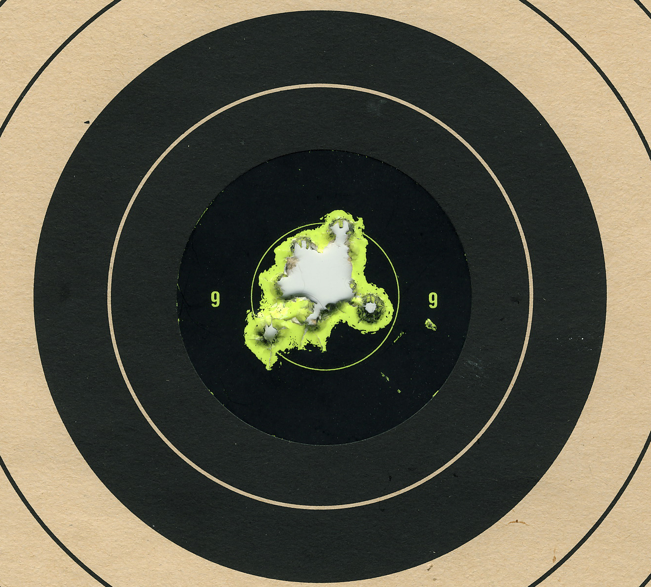 Target from Savage 10FP rifle in .223 Remington. 25 shots at 91 metres (100 yd) using a 4.47 grams (69 gr) Sierra MatchKing bullet. All hits inside a bullseye of 25 millimetres (1 in).